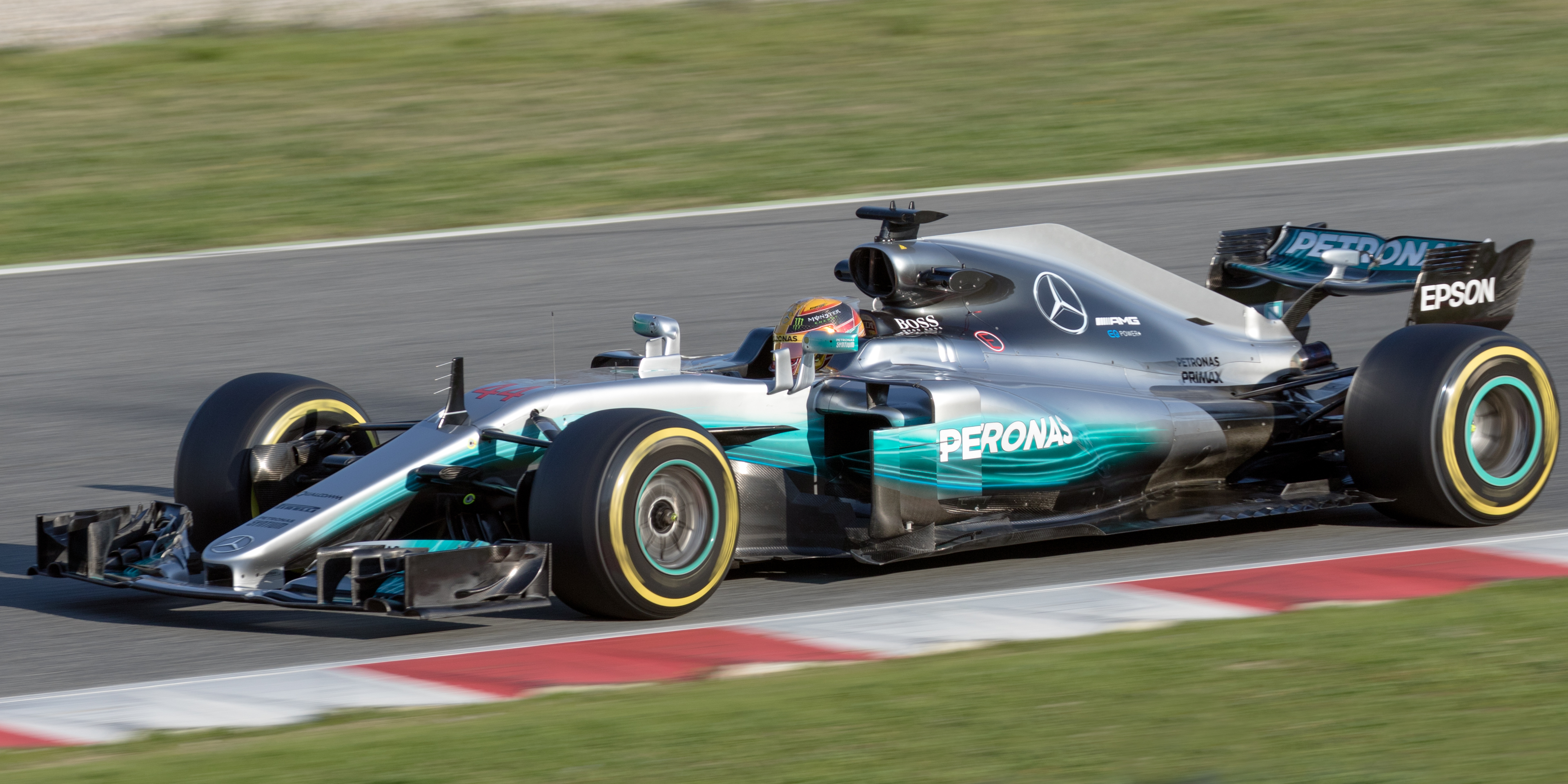 Formula One 2017 Catalonia test (27 February-2 March): Lewis Hamilton (Mercedes)